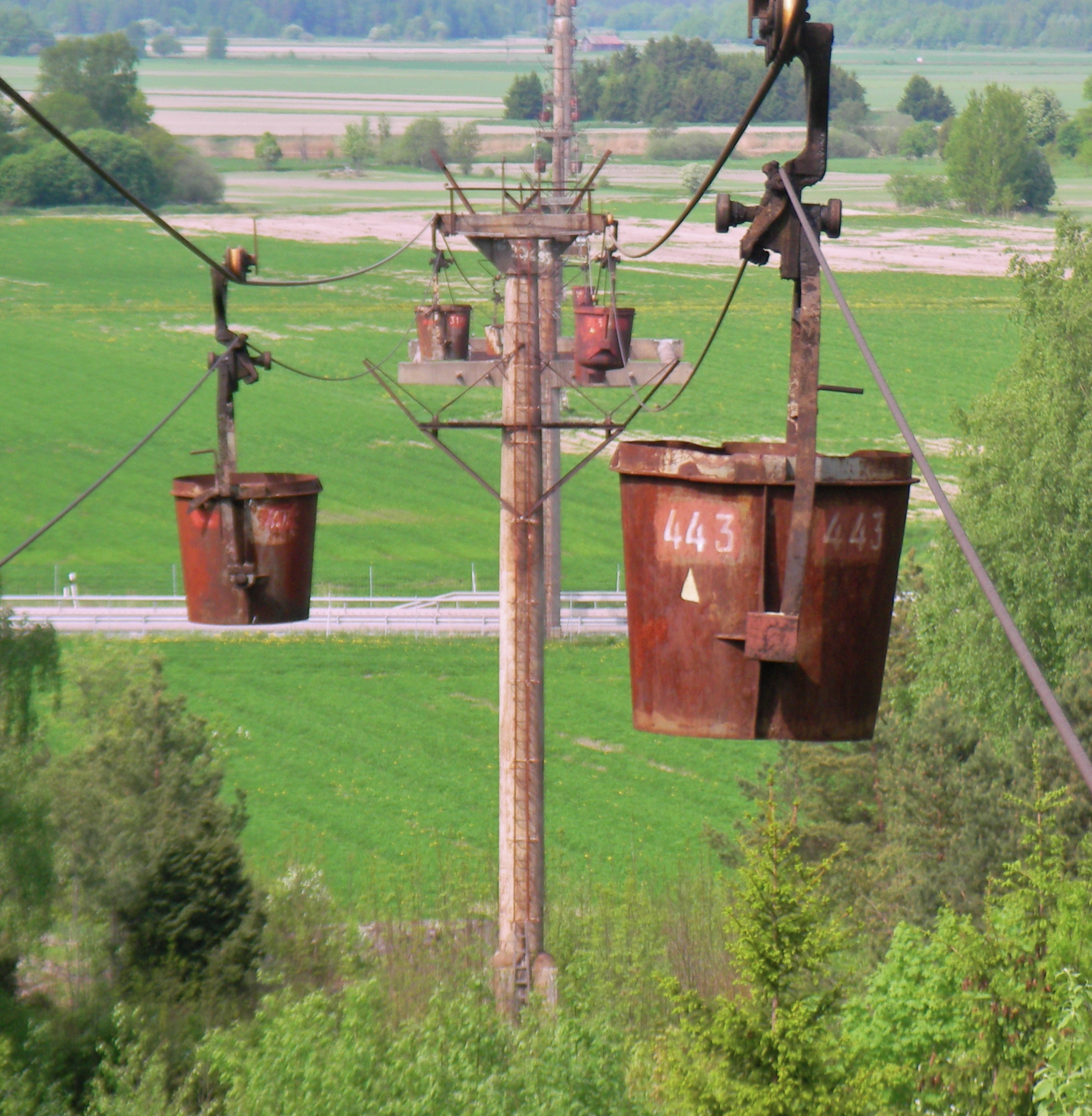 View along the Forsby-Köping limestone cableway towards the Arboga river